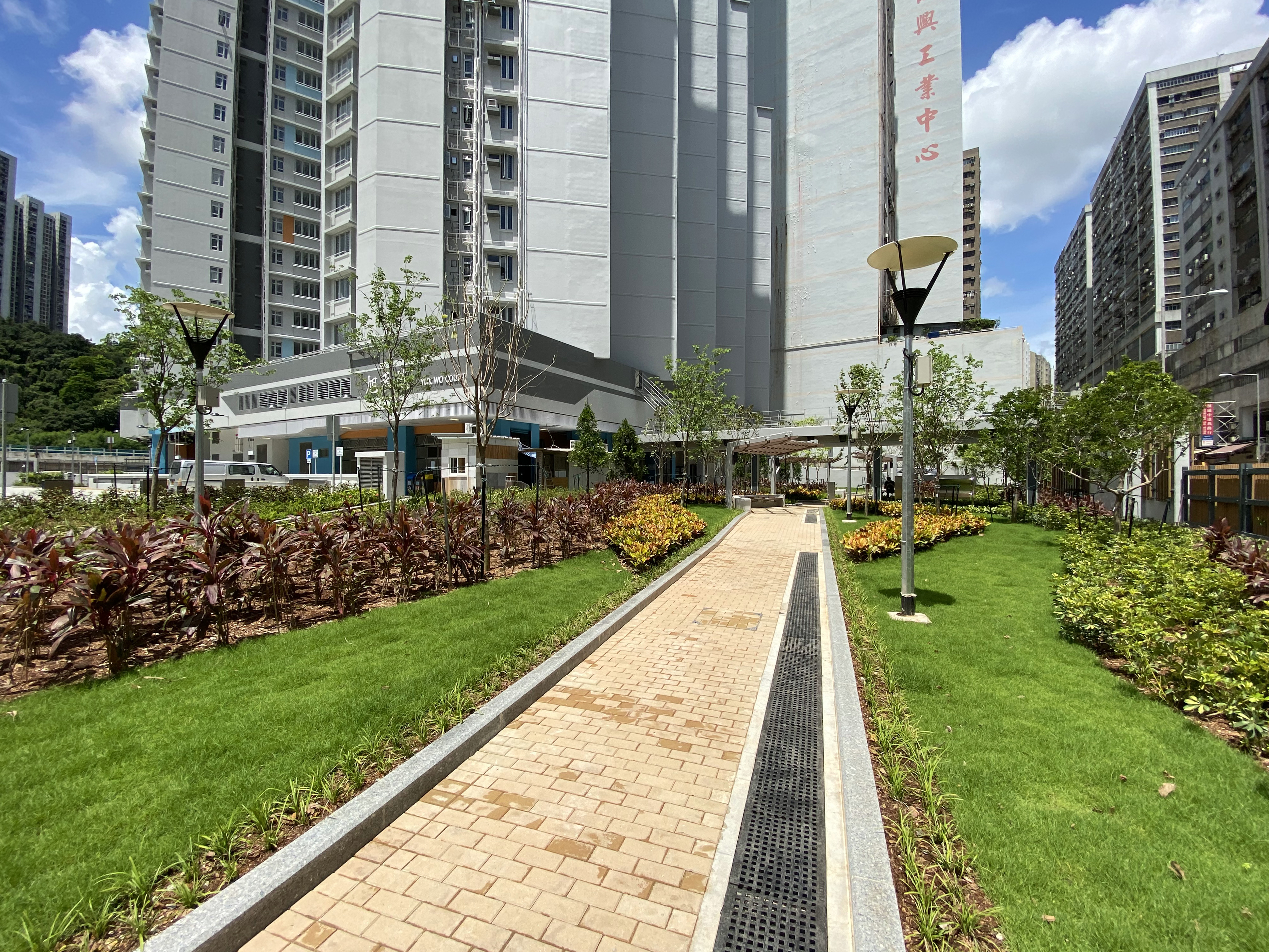 Yuk Wo Court Landscape Area